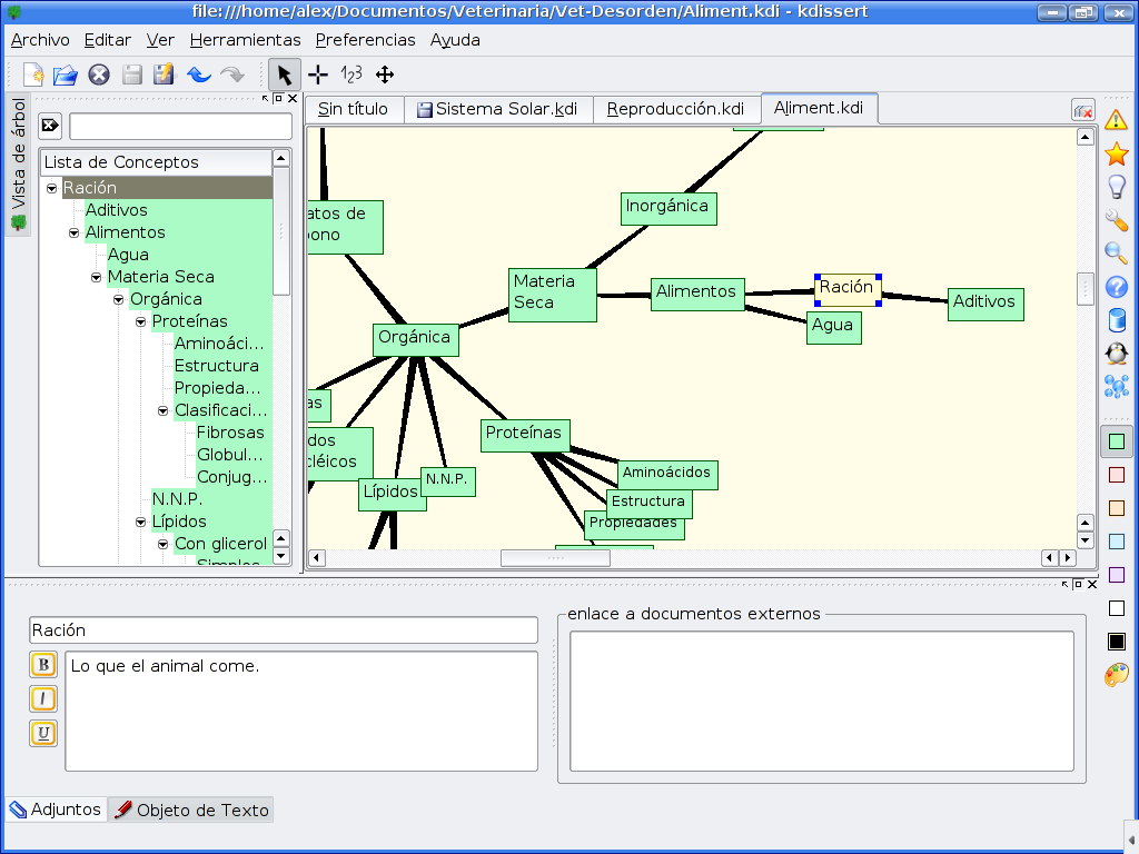 Kdissert (the KDE mindmapping tool) screenshot